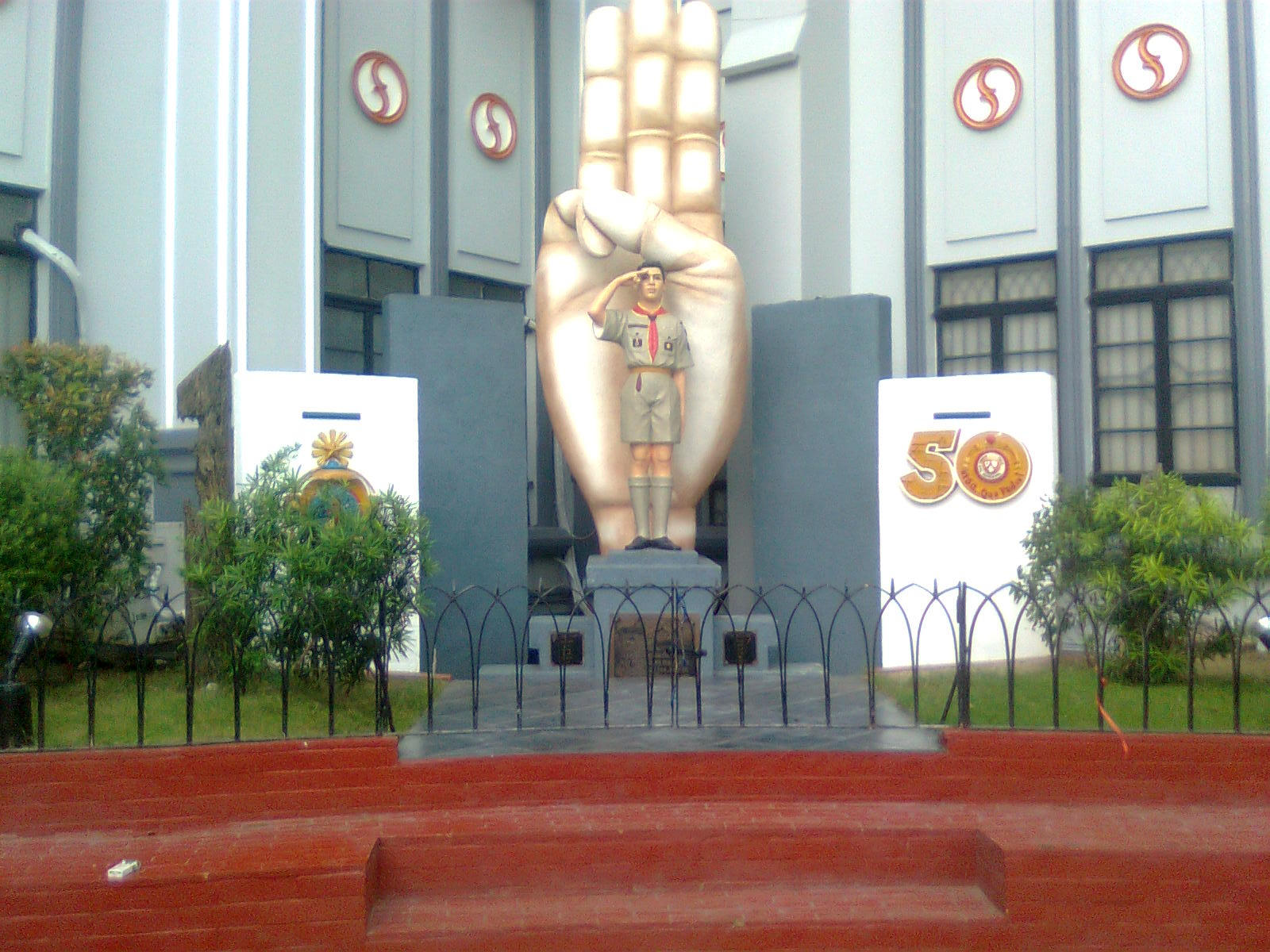 boy scout